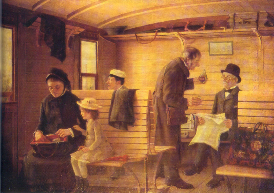 Swedish 3rd class carriage